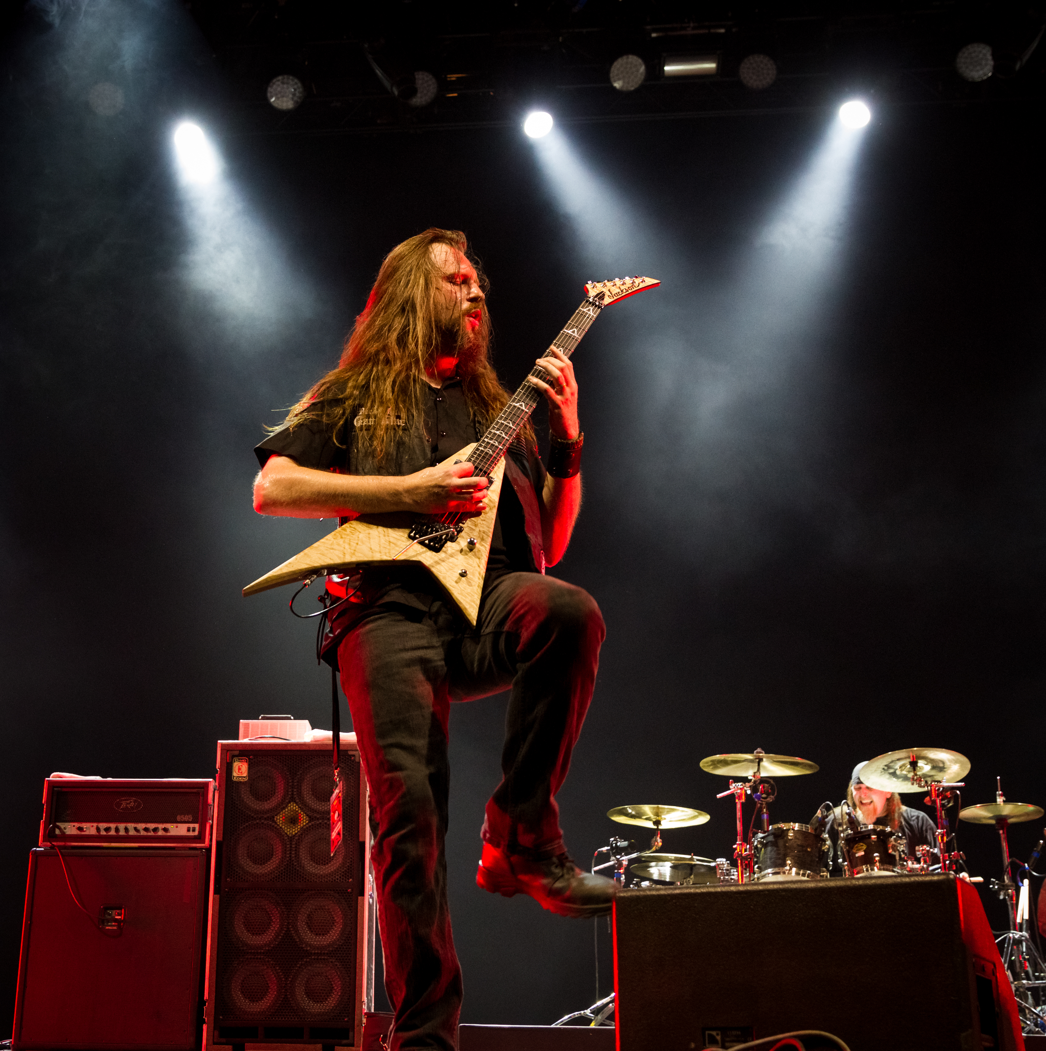 All That Remains - Rock am Ring 2015